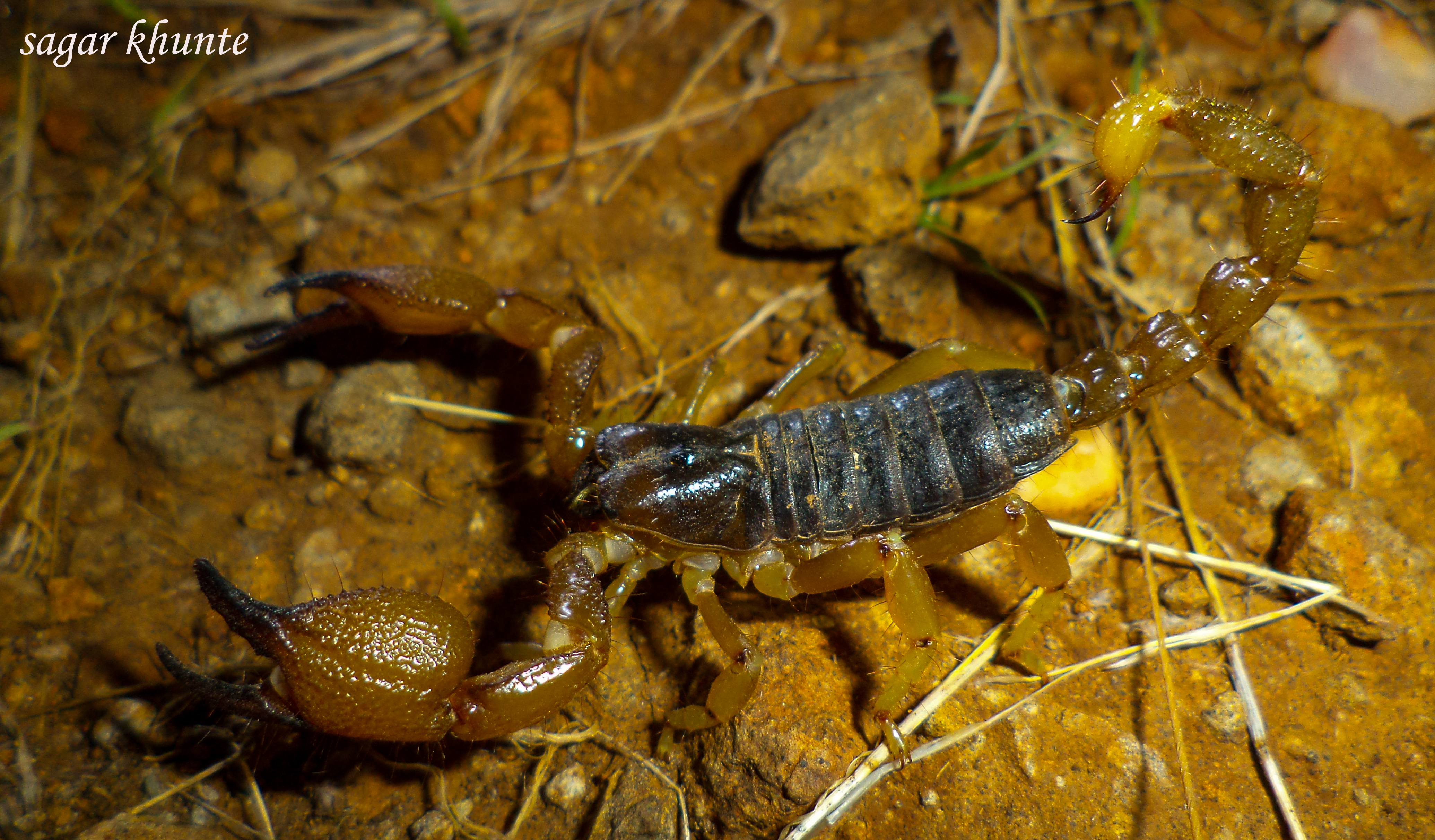 heterometrus xanthopus